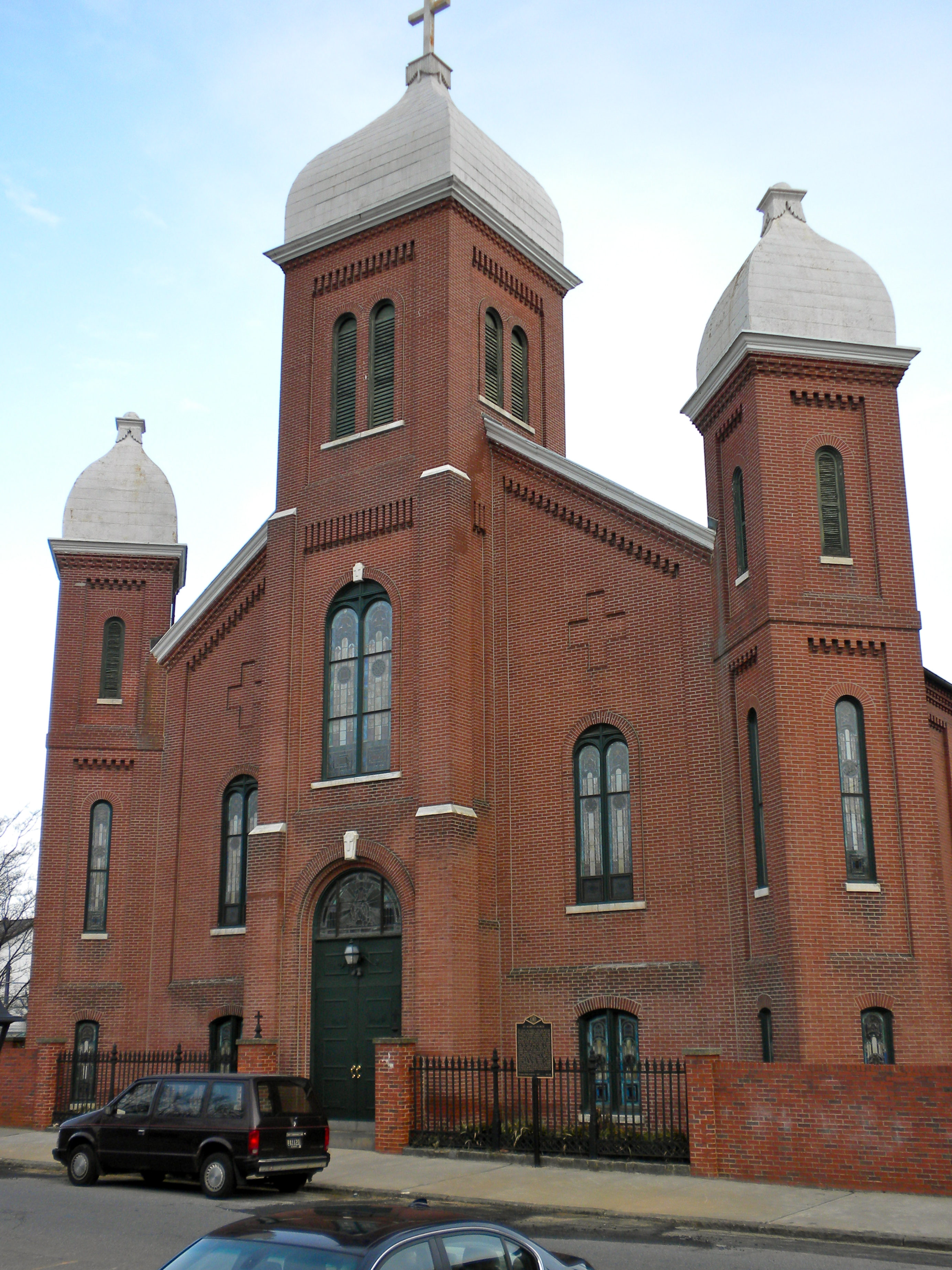 St. Mary of the Immaculate Conception Church, at 6th and Pine Sts. in Wilmington, Delaware. On the NRHP, alongside the associated school (next door)